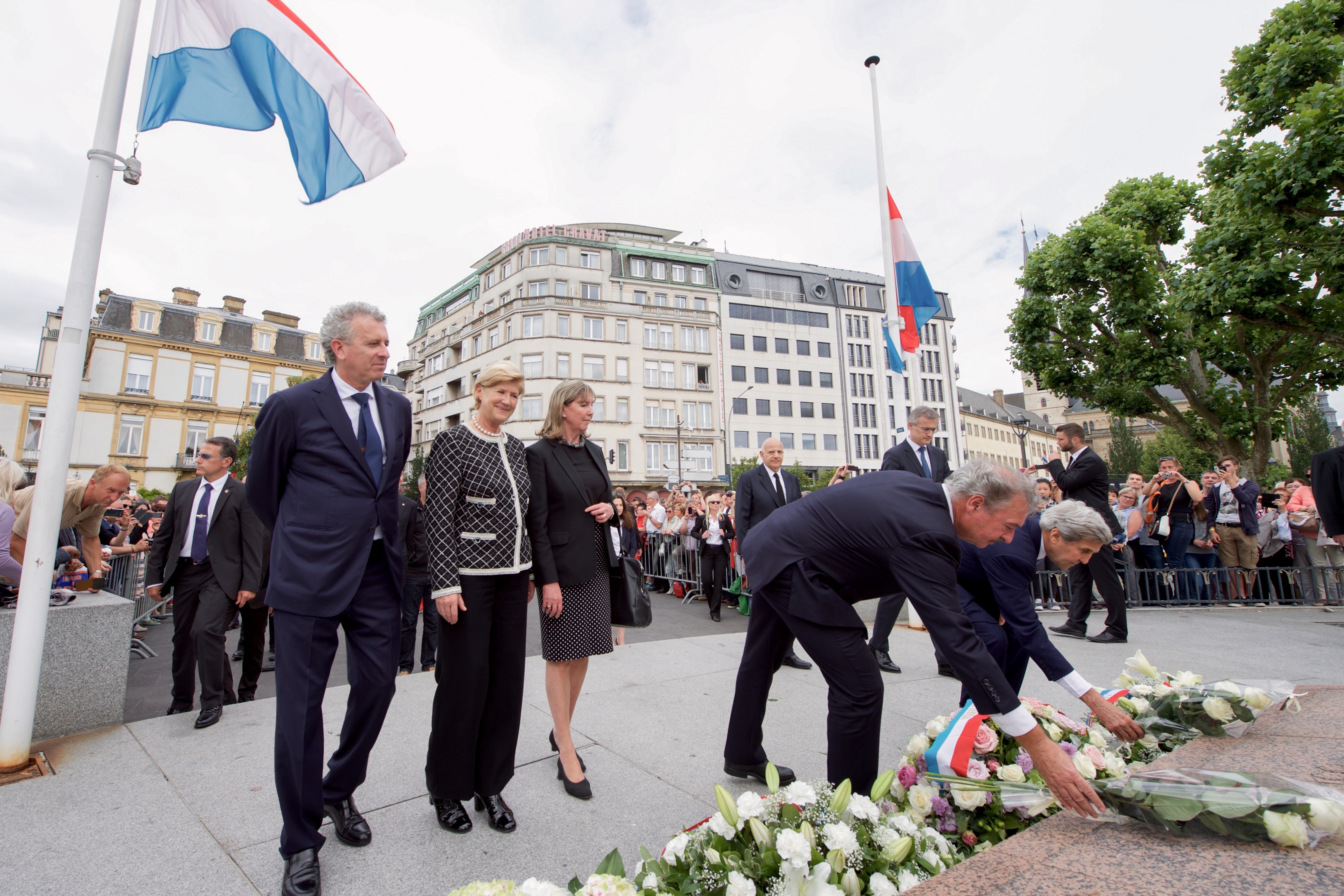 U.S. Secretary of State John Kerry walks with Luxembourgian Foreign Minister Jean Asselborn and other nation's Cabinet on July 16, 2016, as they approach the Monument of Remembrance in Luxembourg City, Luxembourg, to lay flowers in memory of those killed in the terrorist truck attack in Nice, France. [State Department photo/ Public Domain]